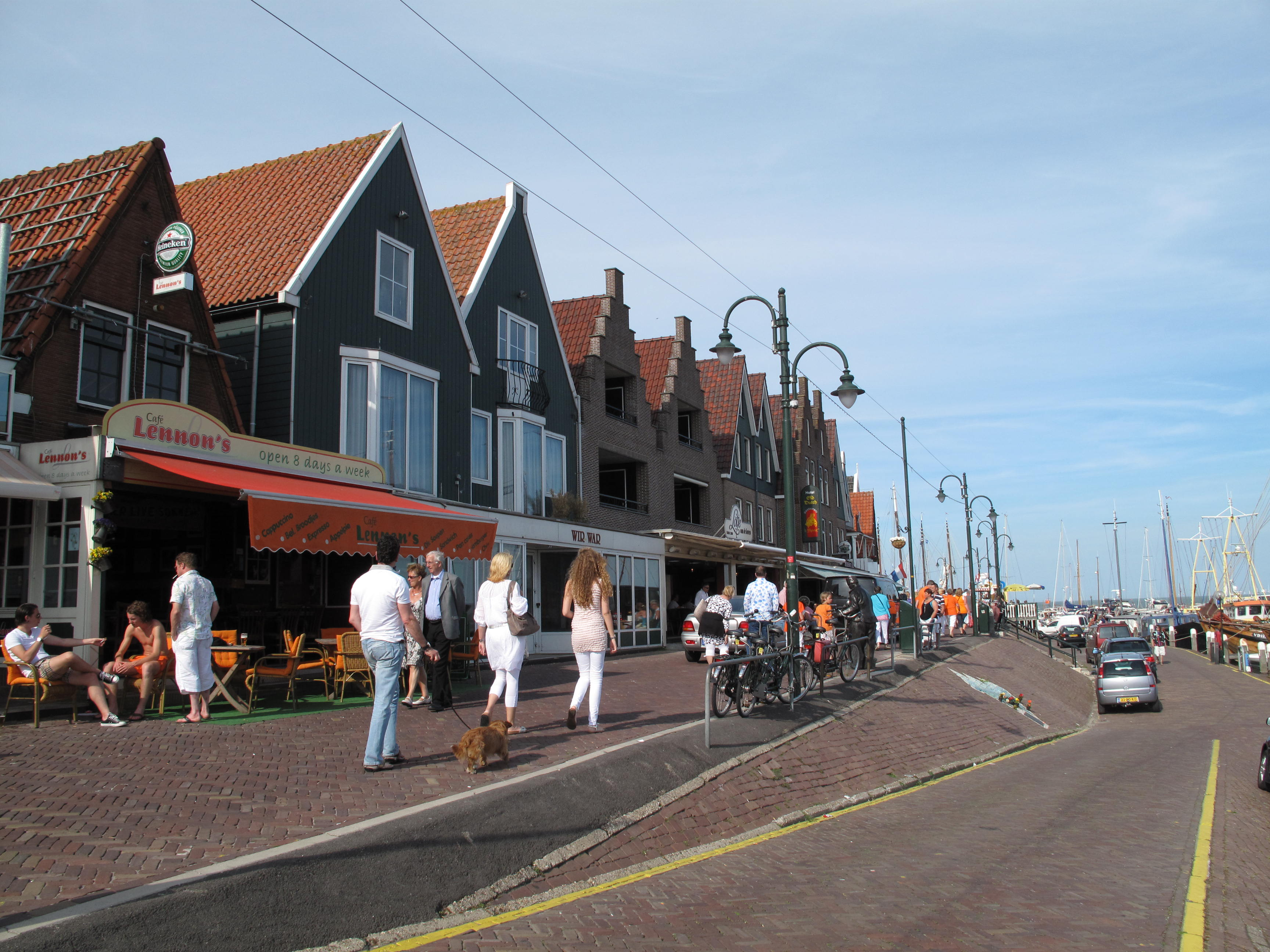 Volendam, street near the port